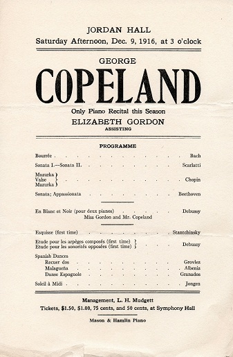 George Copeland's Boston recital program from 1916, featuring the second-ever performance of Debussy's Etudes X & XI, as well as one of the first U.S. performances of "En blanc et noir".